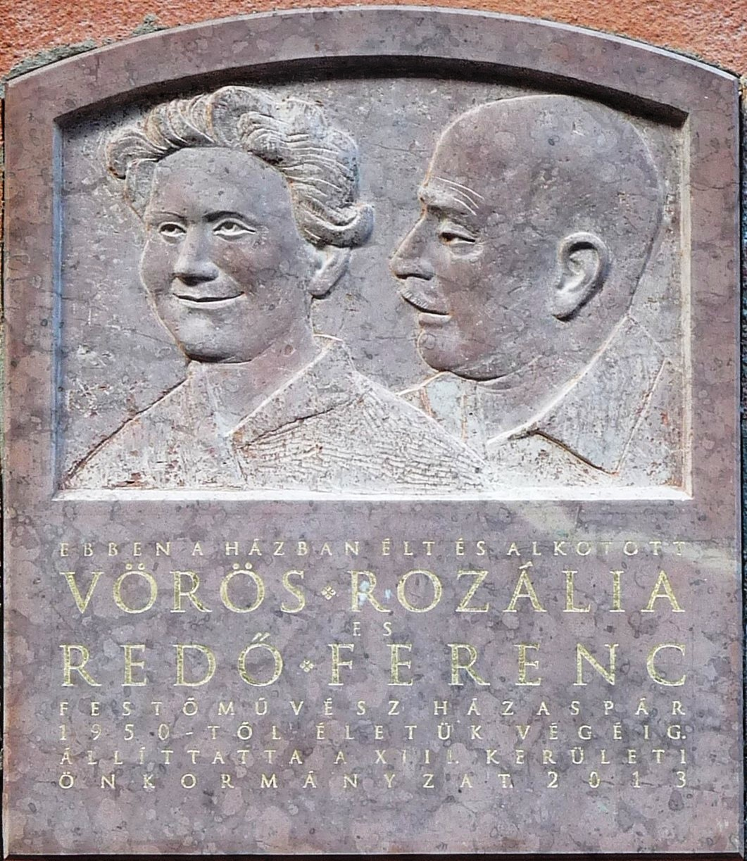 Commemorative plaque to Mr. Ferenc Redő (1913-2012) Hungarian painter and his wife Mrs. Rozália Vörös (1919-1992) painter. It is affixed to the front of their former home and unveiled on September 5, 2013. Author of the relief is Mr. Norbert Kotormán. (Budapest, District XIII, Csanády Street Nr 5).